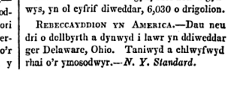 Welsh newspaper published by Robert Everett in Utah, New York, 1843. American Rebecca Riots in USA.